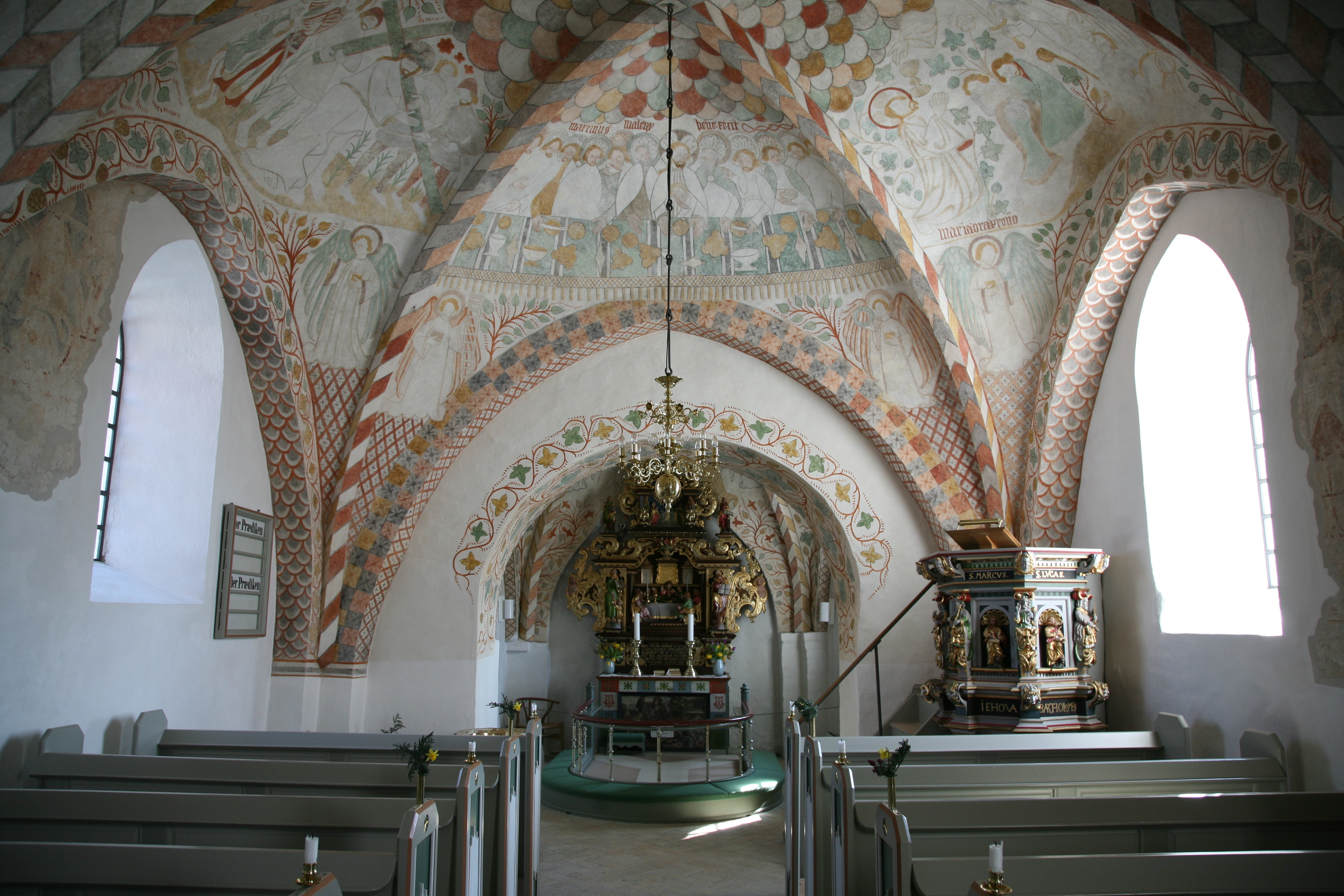 Gerlev church, near Slagelse, Denmark